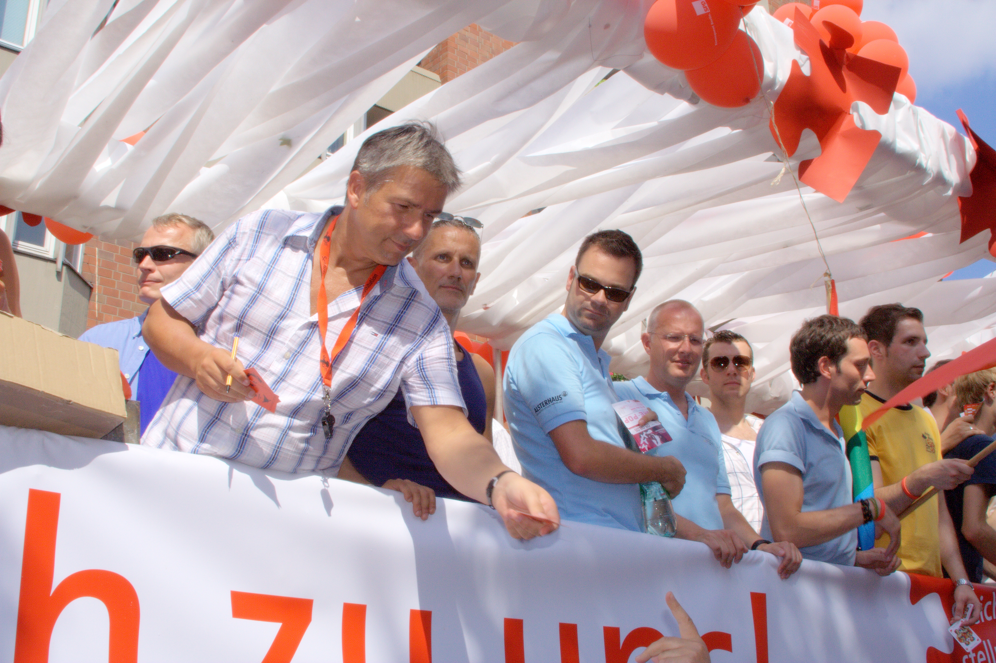 The gay governing mayor of Berlin, Klaus Wowereit, distributing autograms at the Christopher Street Day 2006.